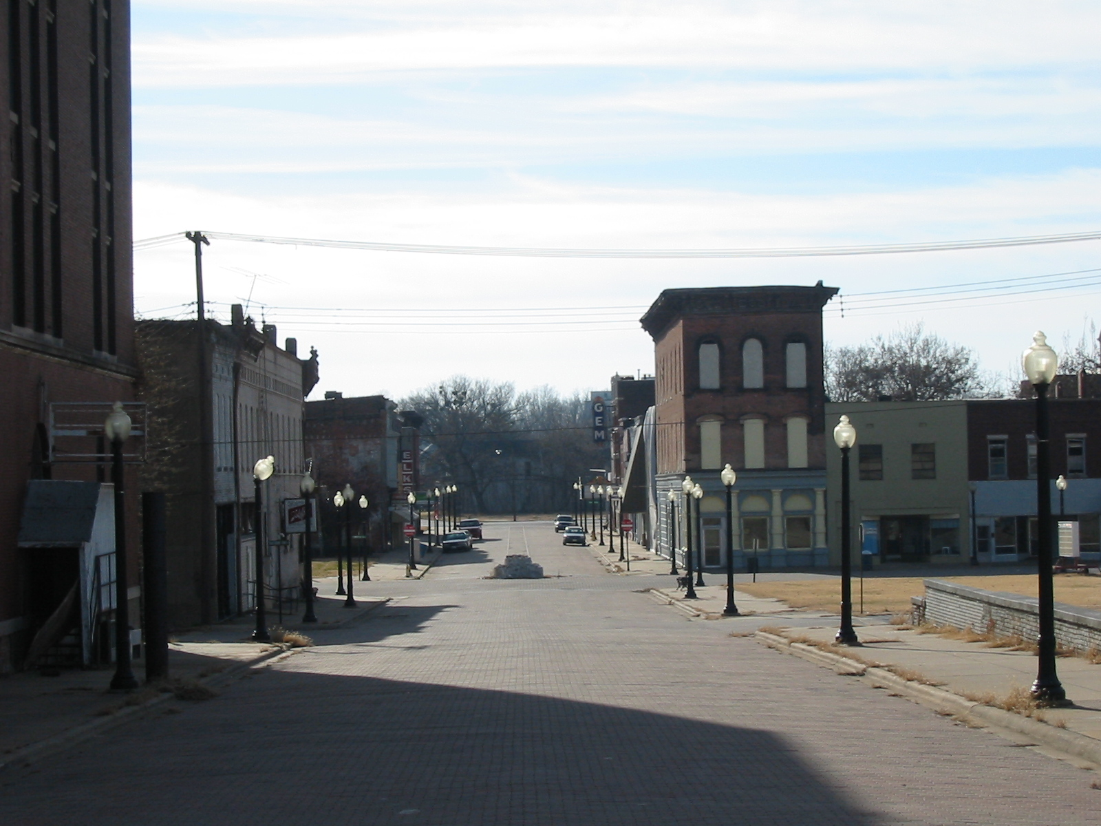 Downtown Cairo, Illinois, USA